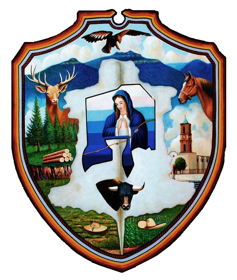 Coats of arms of Valparaiso